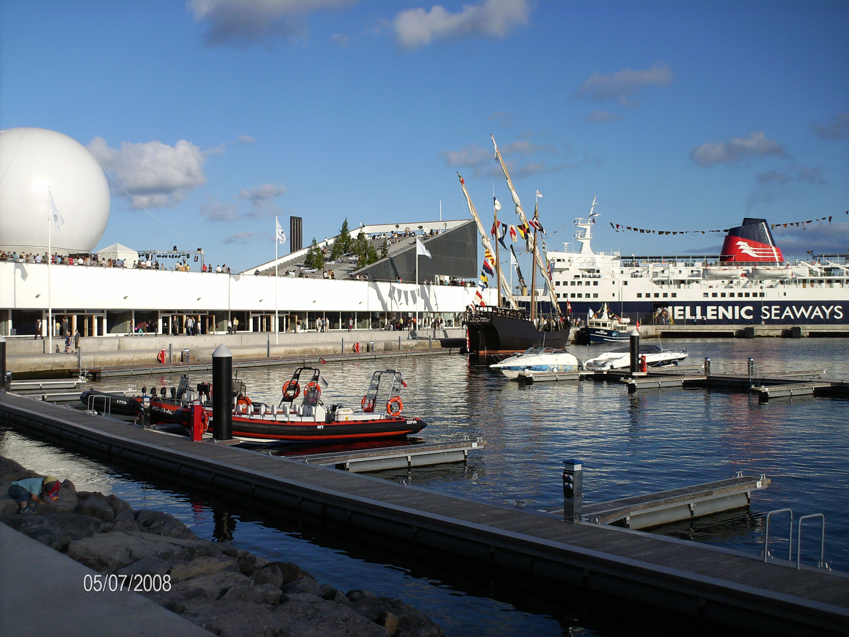 The marine terminal of Portas do Mar, with visiting ships the nau Vera Cruz and Expresso Santorini, municipality of Ponta Delgada (Azores), Portugal